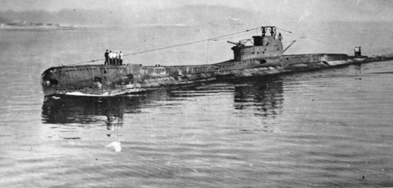 British T class submarine HMSM TRUANT underway, coastal waters